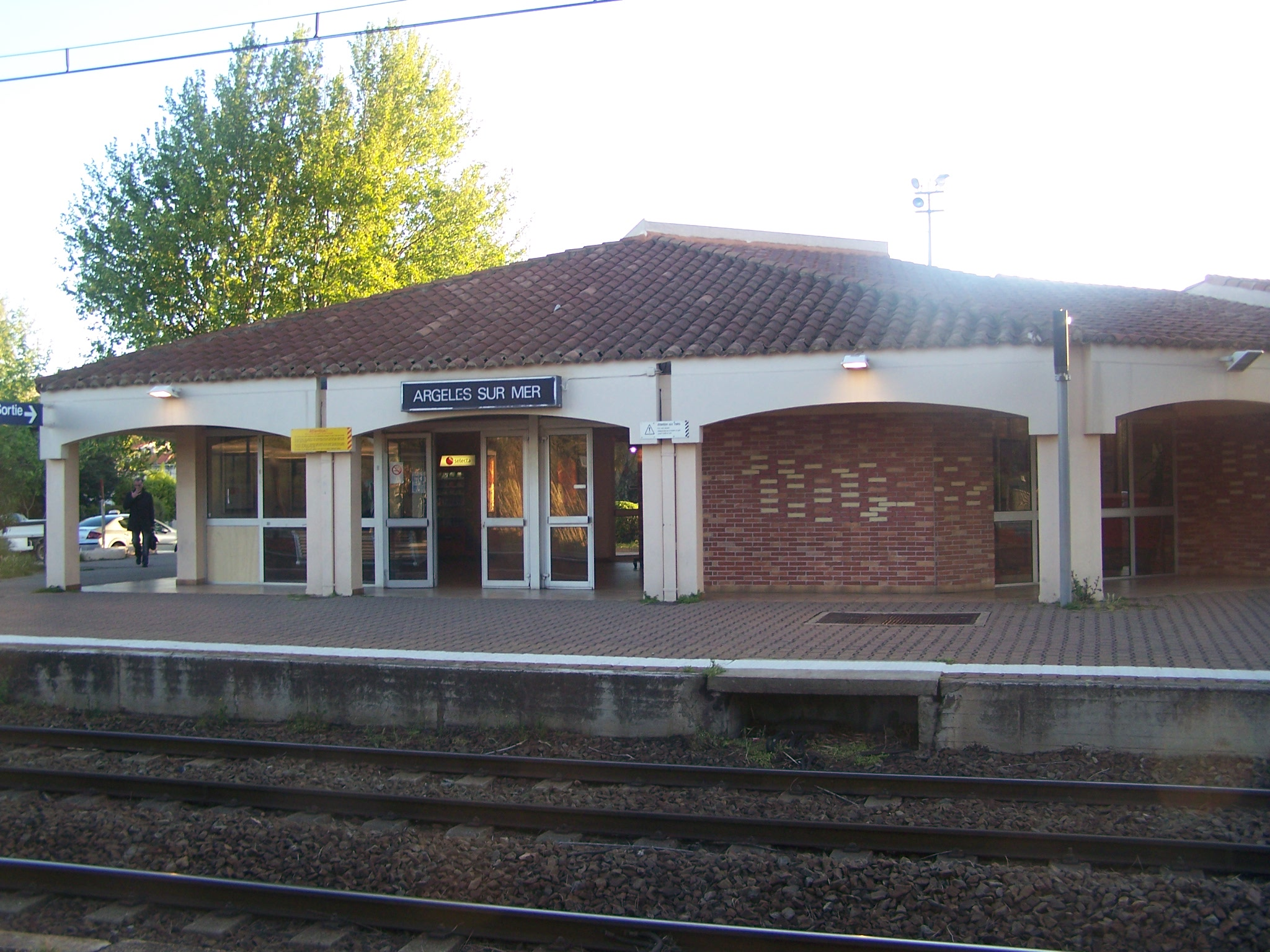 In the French department of Pyrénées-Orientales, city of Argelès sur Mer train station hall, seen from the opposite platform.